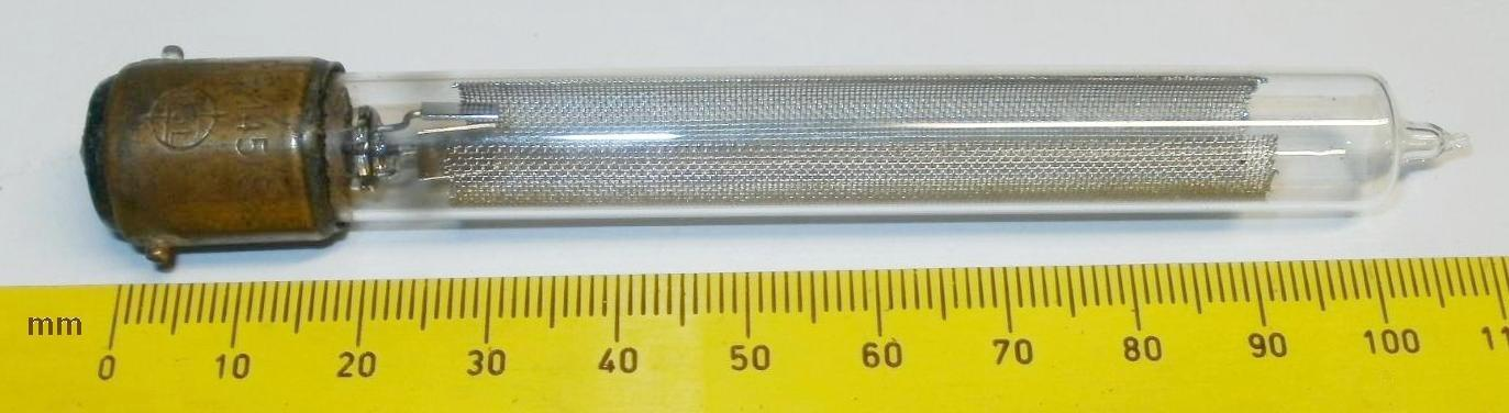 When tuning designed glow lamp: the asgebildete as wire mesh sleeve cathode is covered by a controllable Glimmhaut